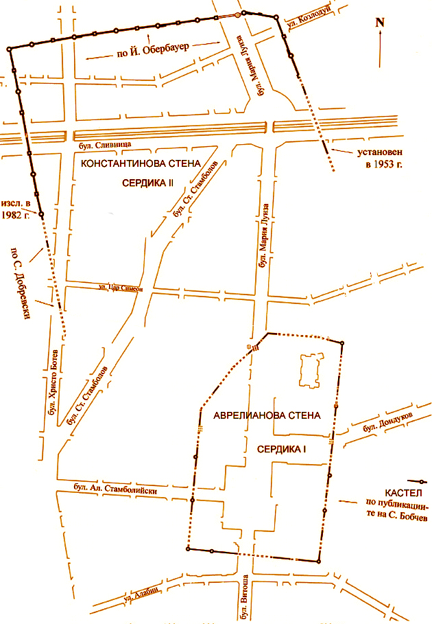 Serdika fortess